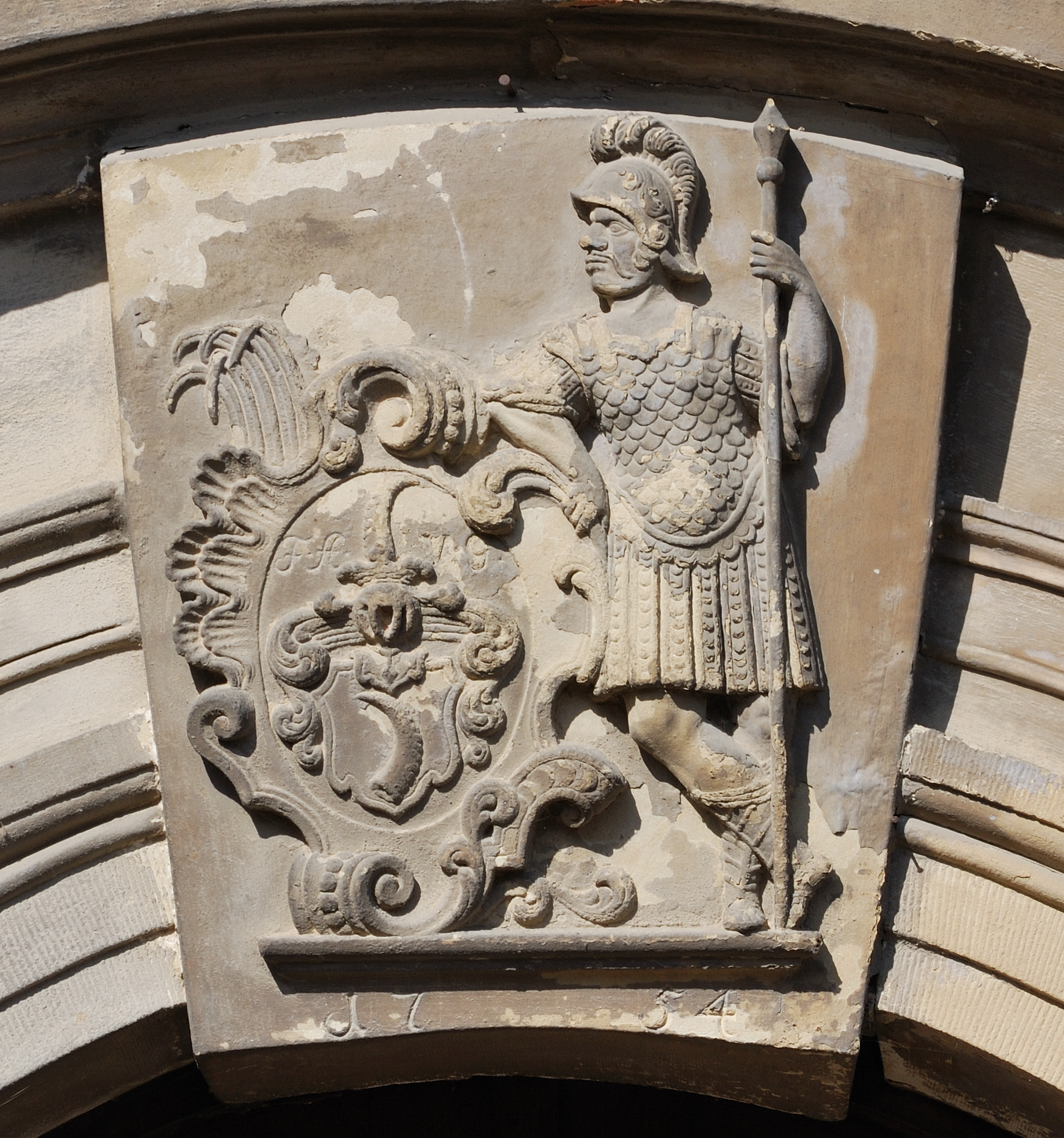 A plate with the coat of arms of Friedrich Albrecht von Gaisberg (1710 - 1763) with his initials F.A.V.G.. It is attached above the entrance to the former Gaisberg building in the Schillerstr. 9 in Schöckingen in Baden-Württemberg in Germany.